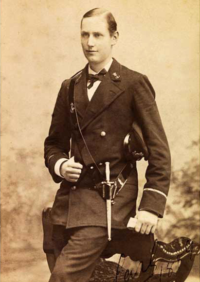 Prince Carl, the later King Haakon VII of Norway.